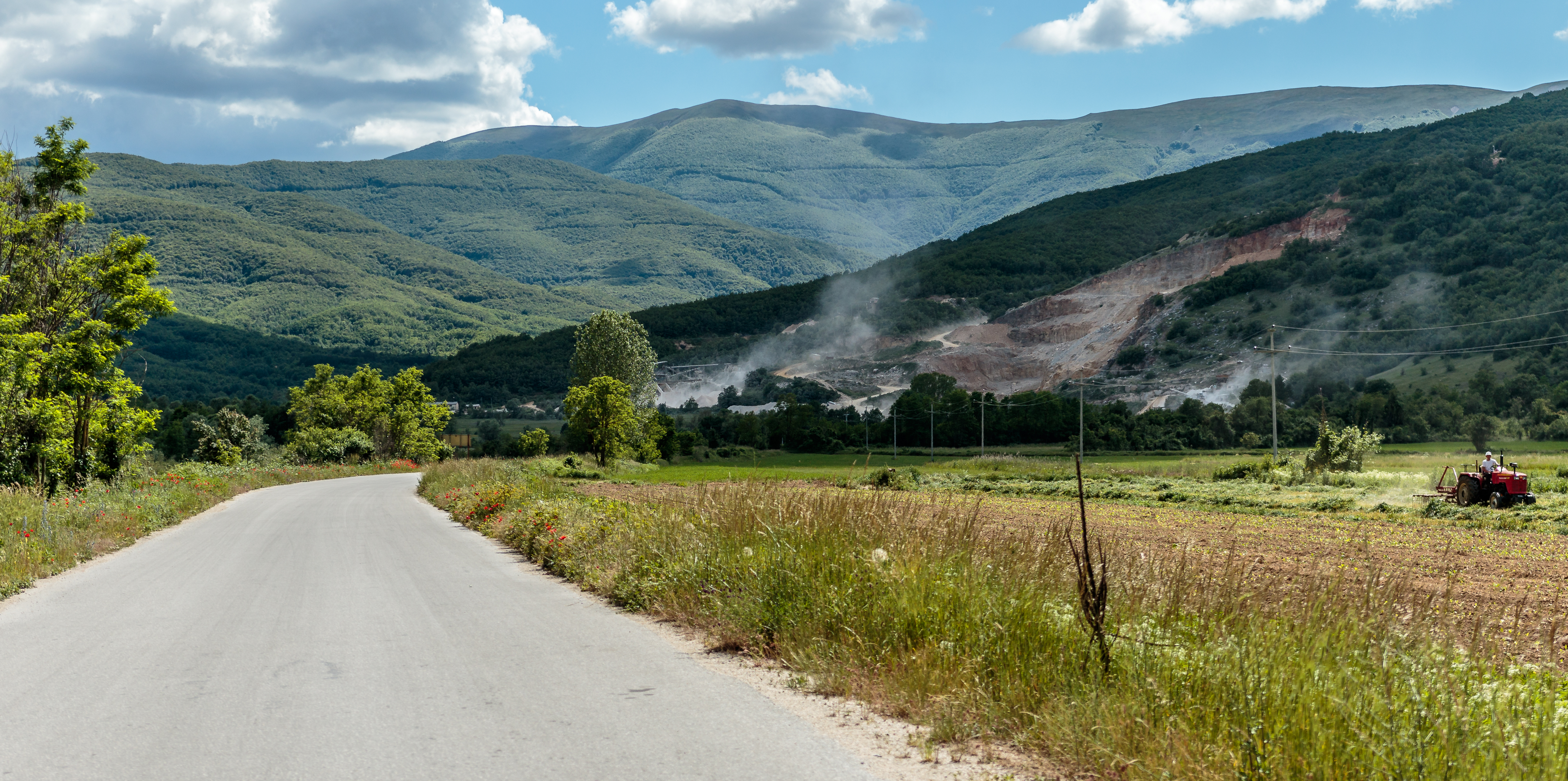 View of the mine Demir Hisar